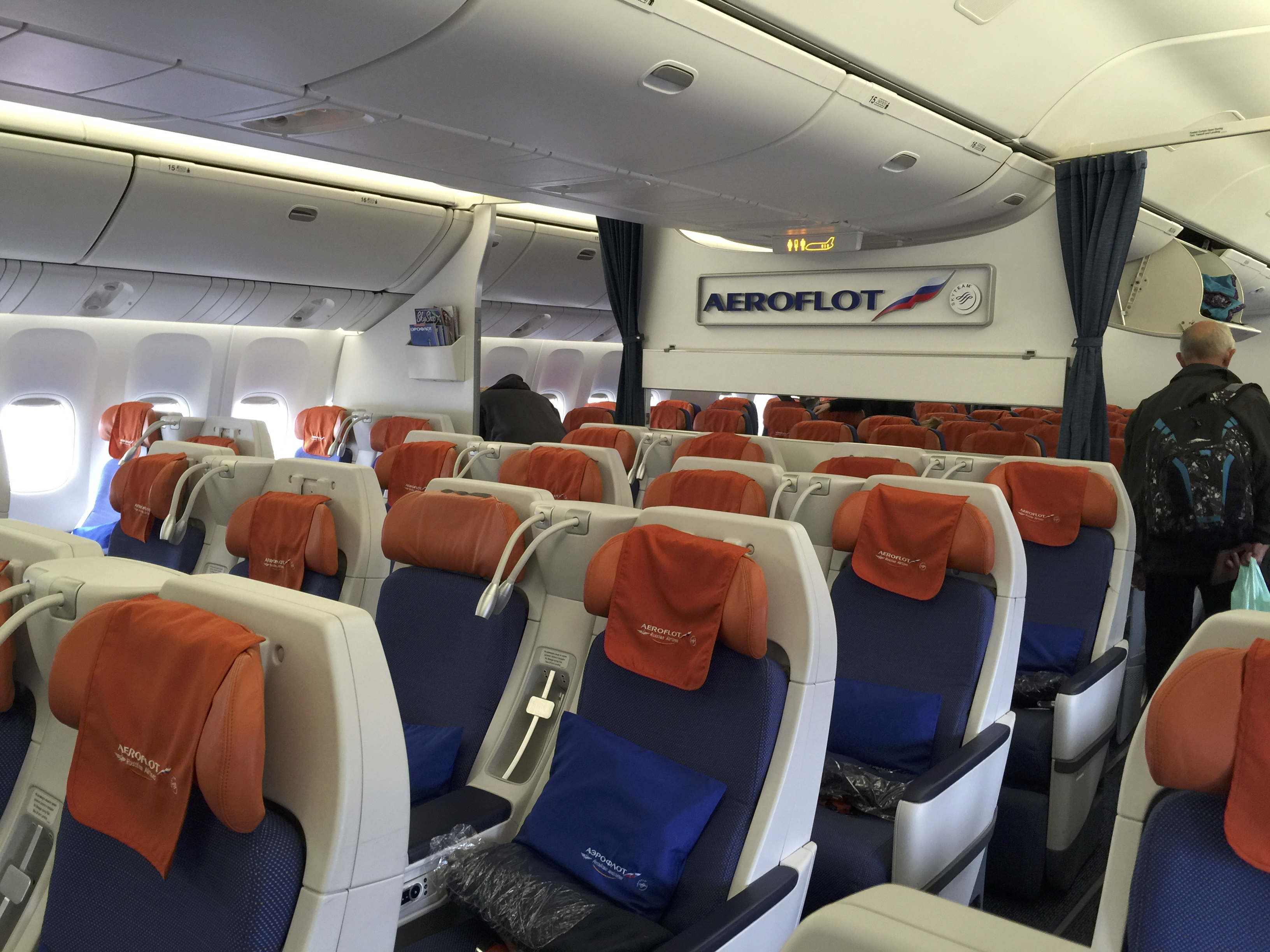 Aeroflot aircraft cabin